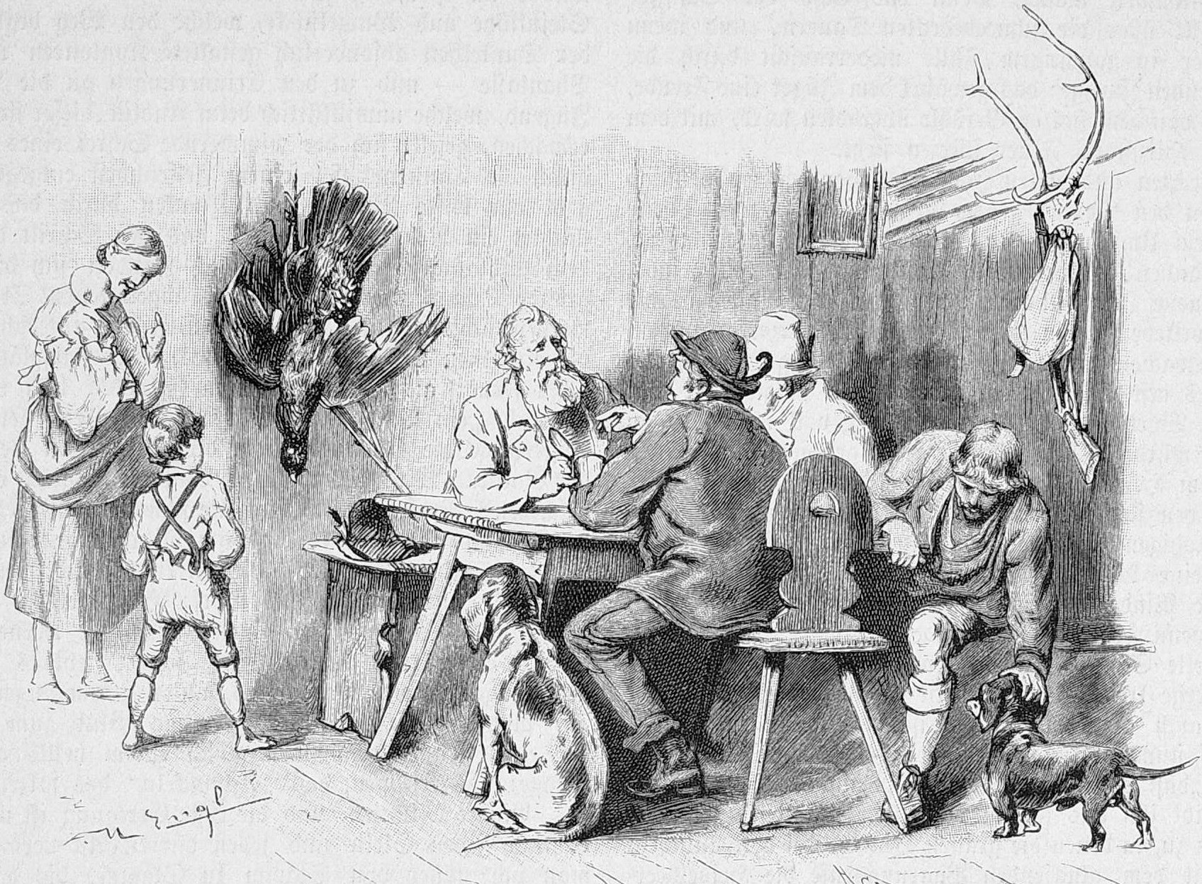 no caption